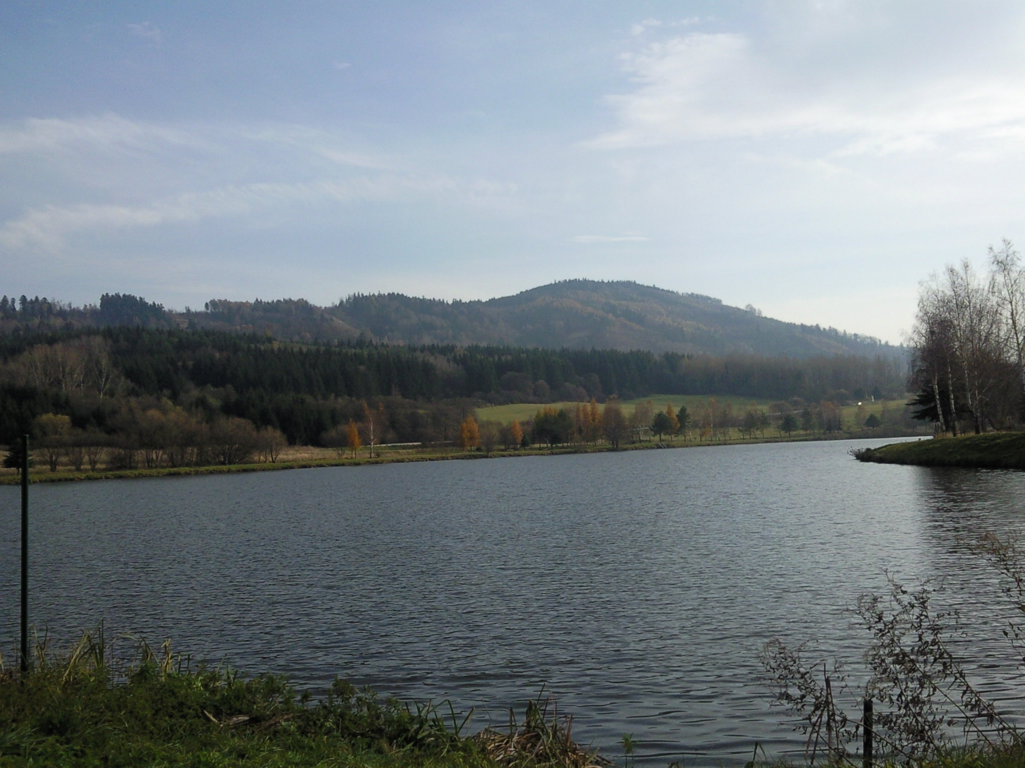 Handlová